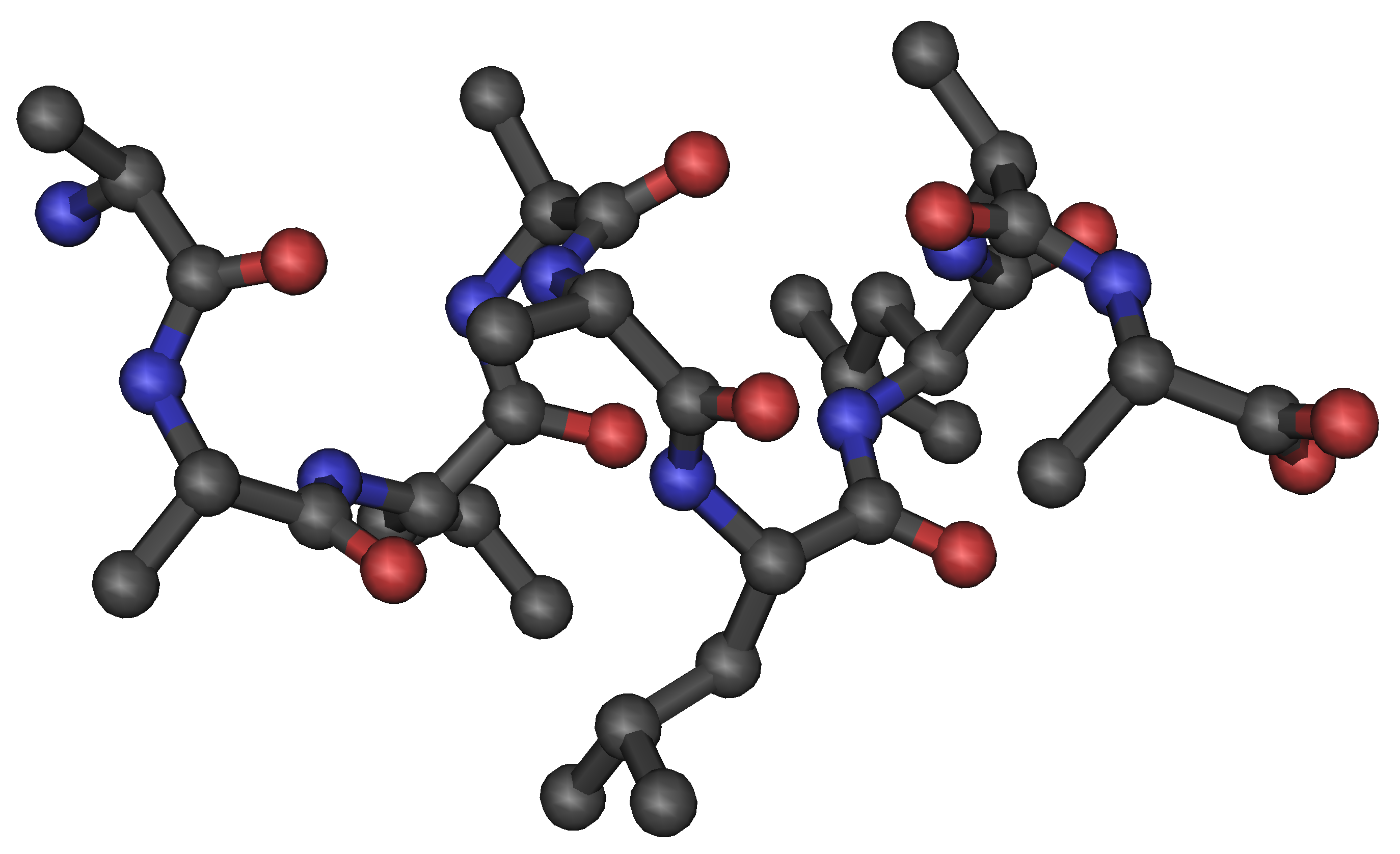 MMDB ID 77648 PDB ID 3FS1b Crystal Structure Of Pgc-1a